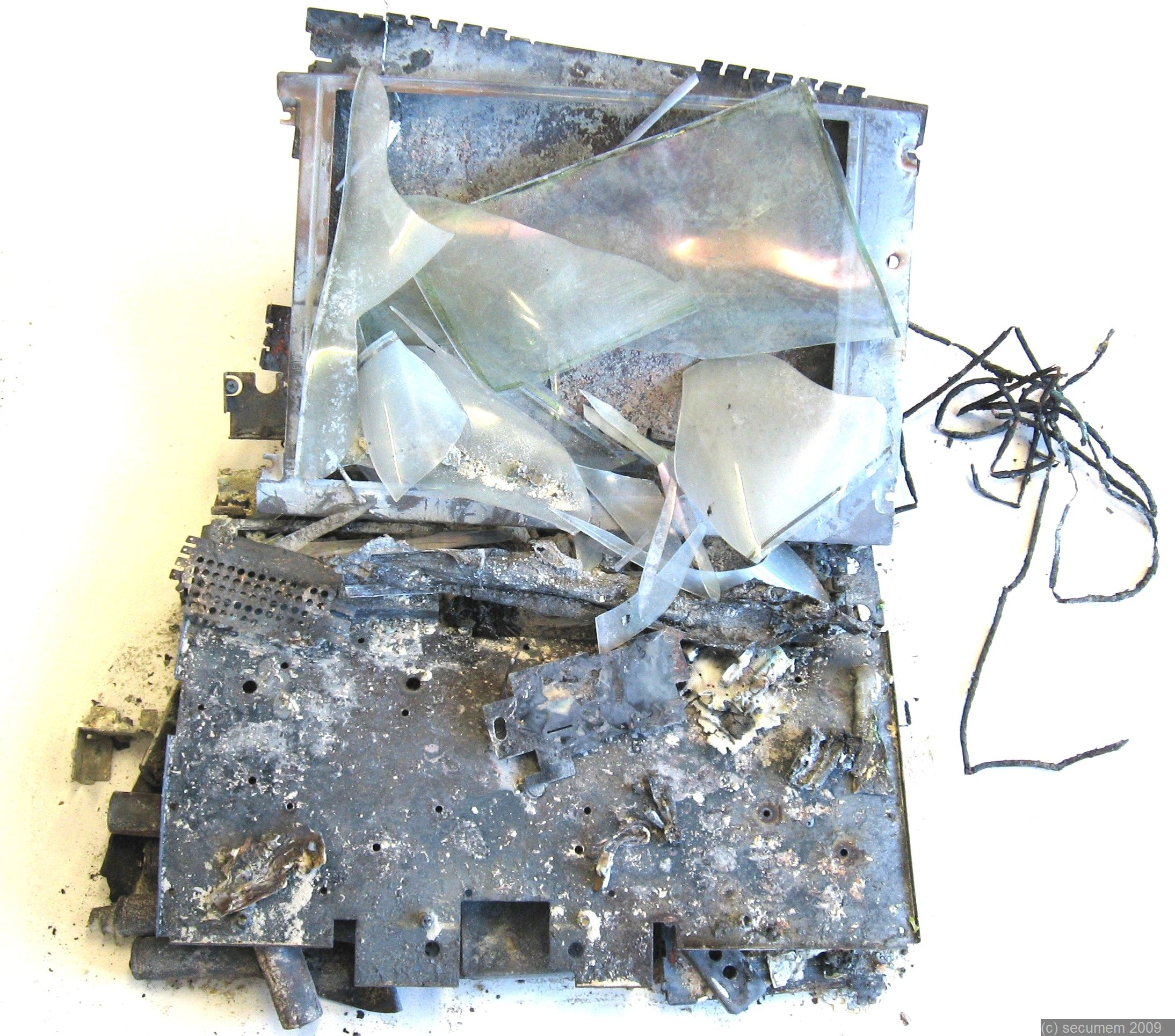 burnt laptop